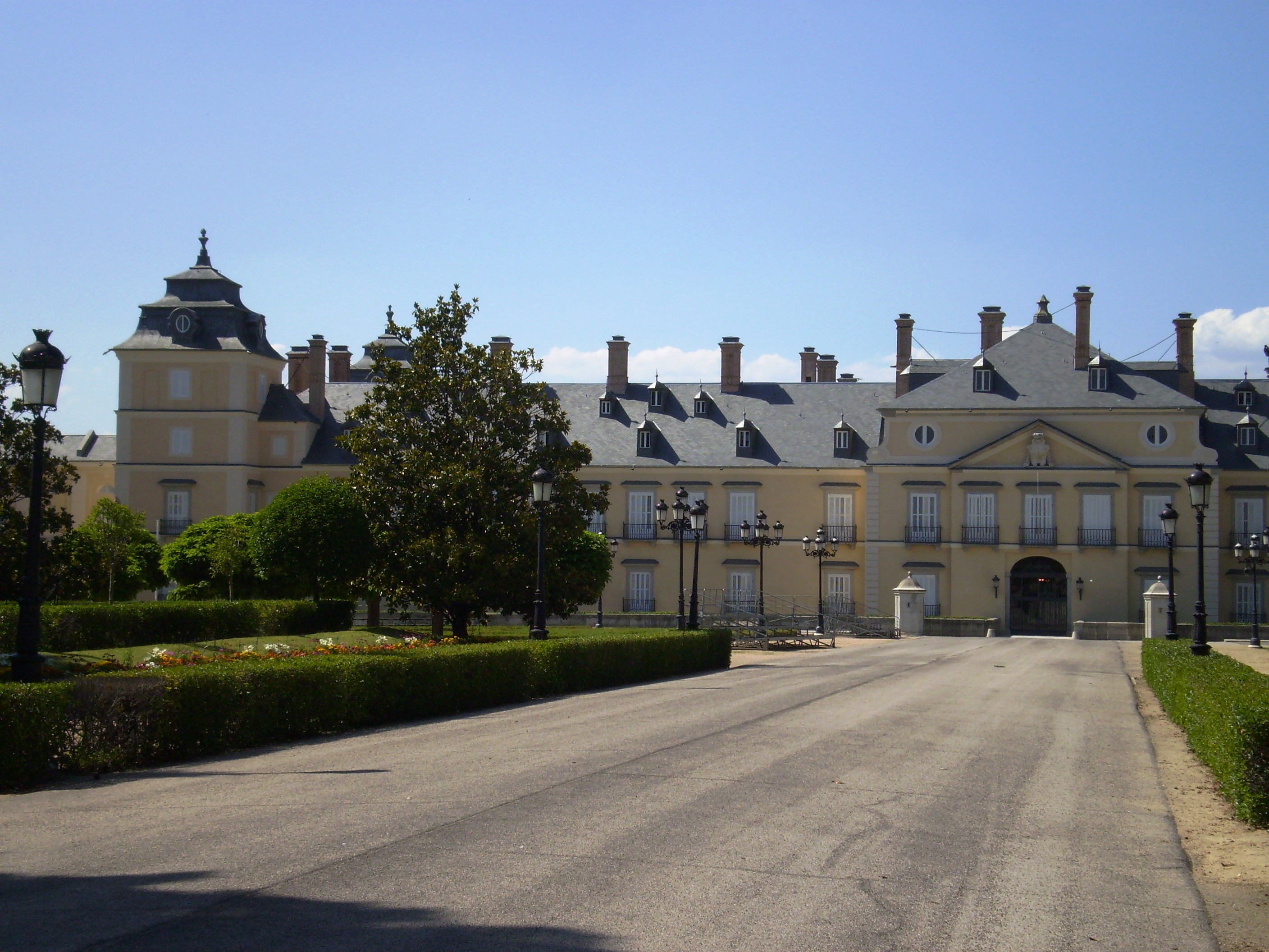 Royal Palace of El Pardo, Madrid, Spain